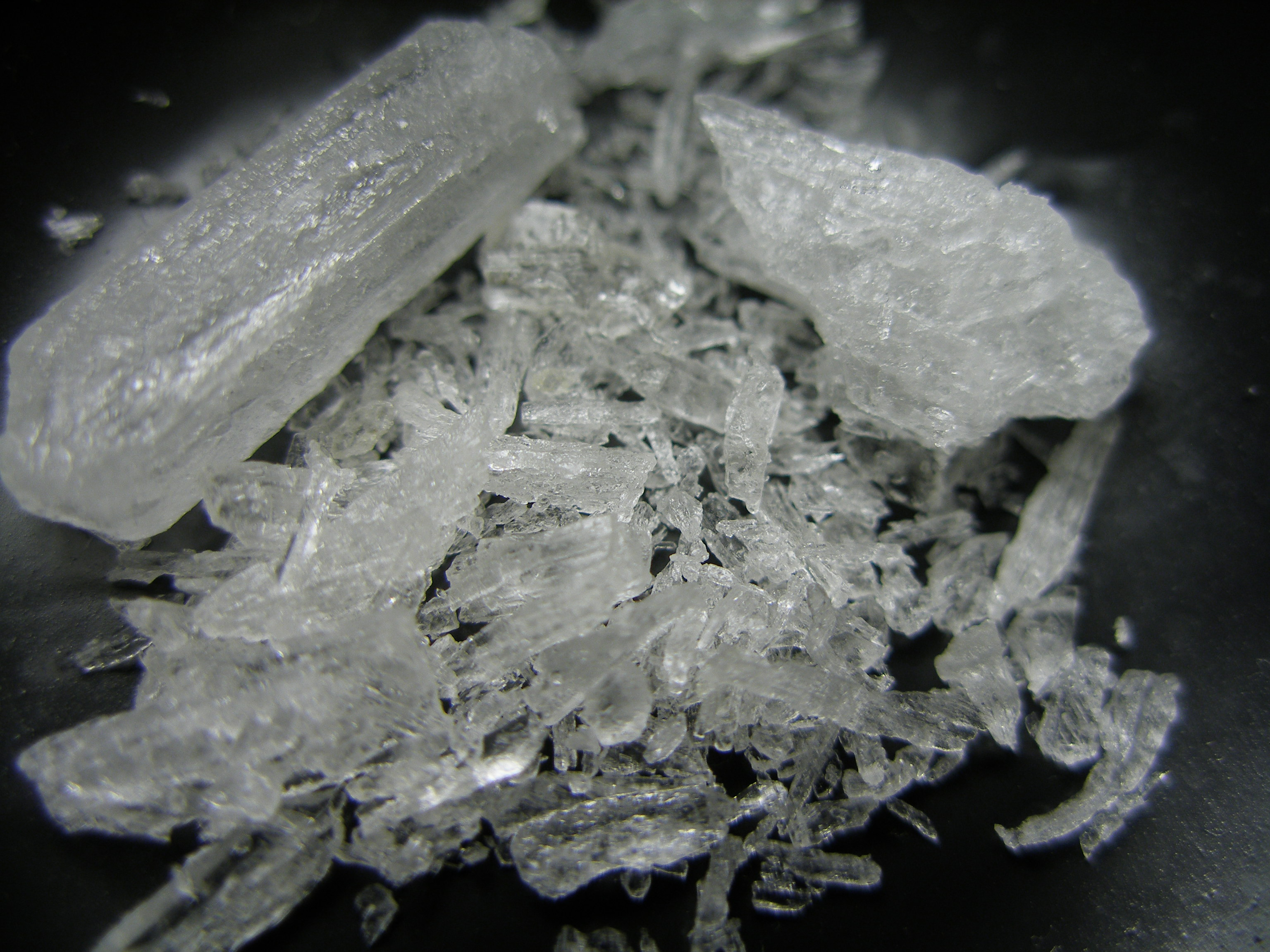 a beautiful macro shot of Crystal Methamphetamine in a black background